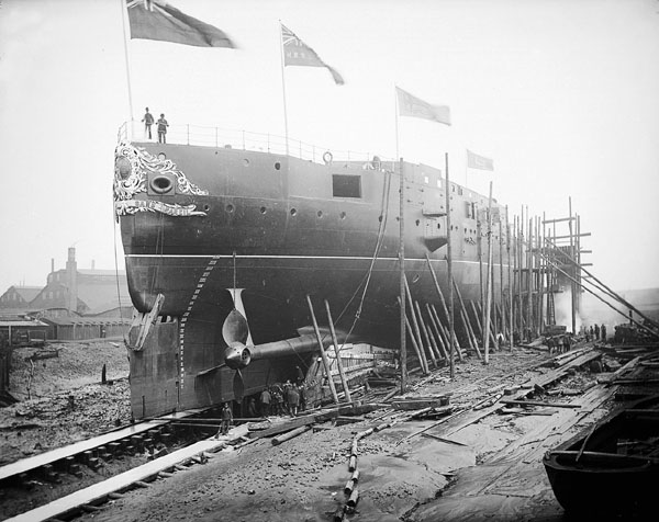 Photograph of British battleship HMS Sans Pareil ready for launching, at Thames Ironworks, Blackwall.